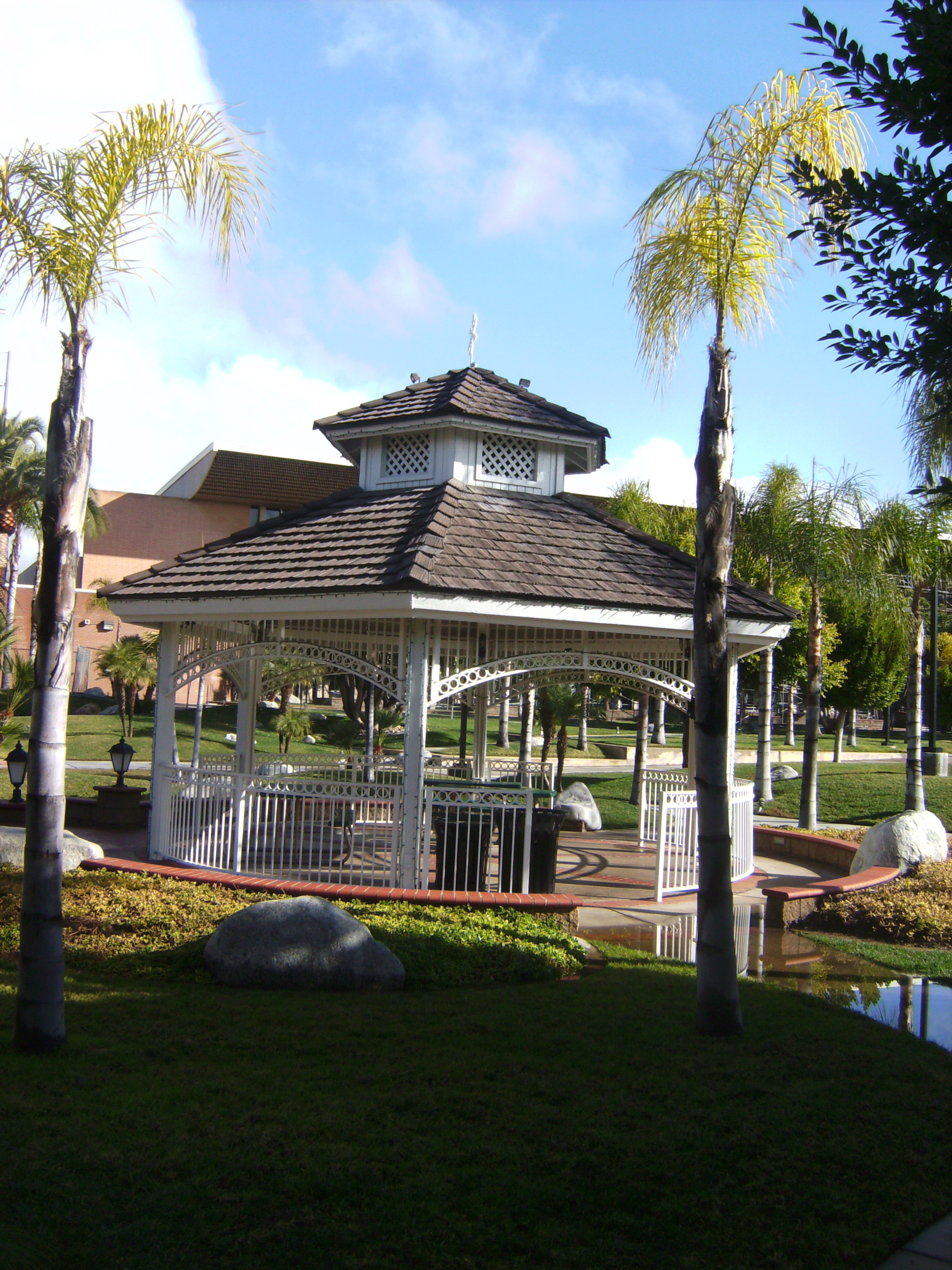 The Gazebo on the middle of campus at LIFE Pacific College - Los Angeles County, California.